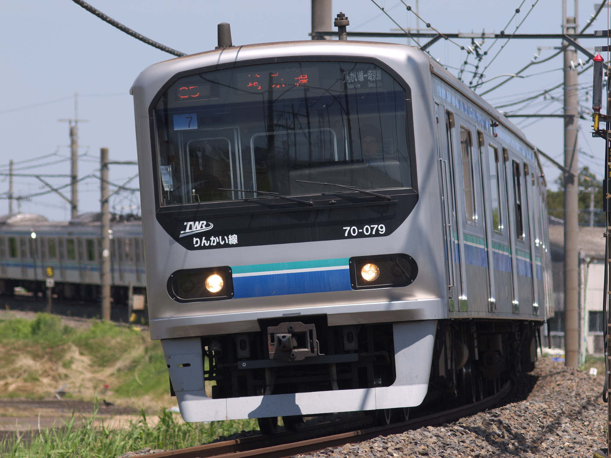 TWR 70-000 series EMU set 7 on the Kawagoe Line in Saitama Prefecture, Japan